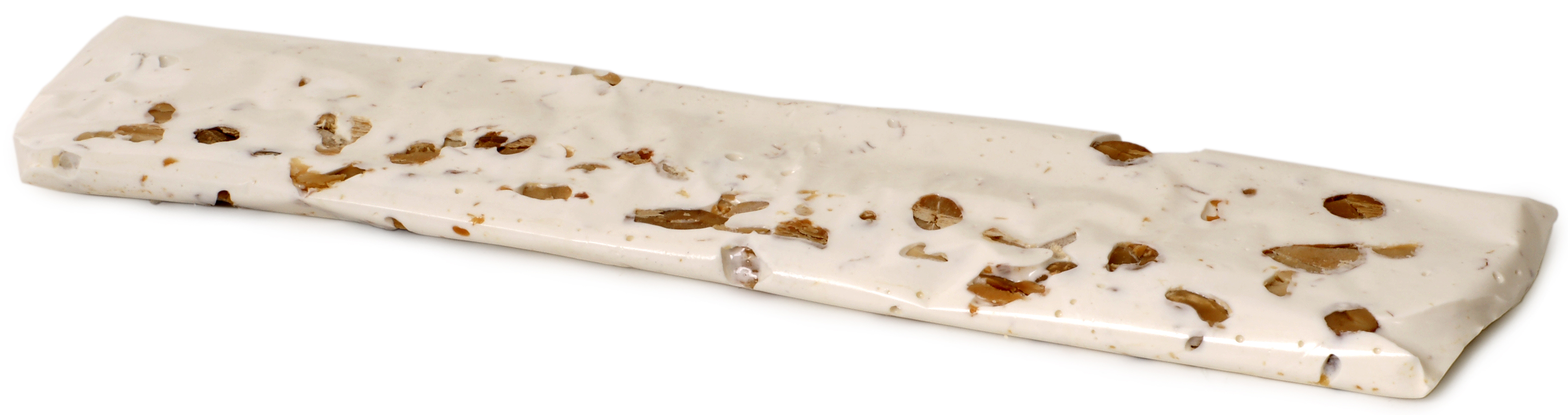 A Big Hunk nougat and peanut bar. It is made by the Annabelle Candy Company.